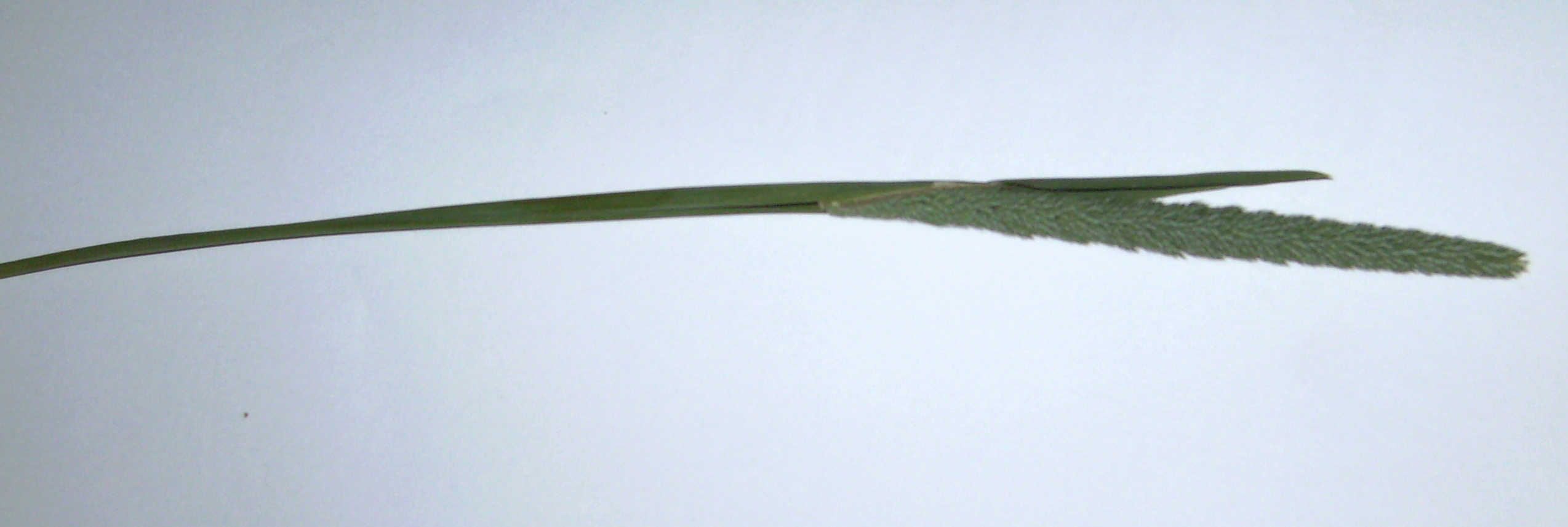 Phleum phleoides in the wild, Castelltallat, Catalonia